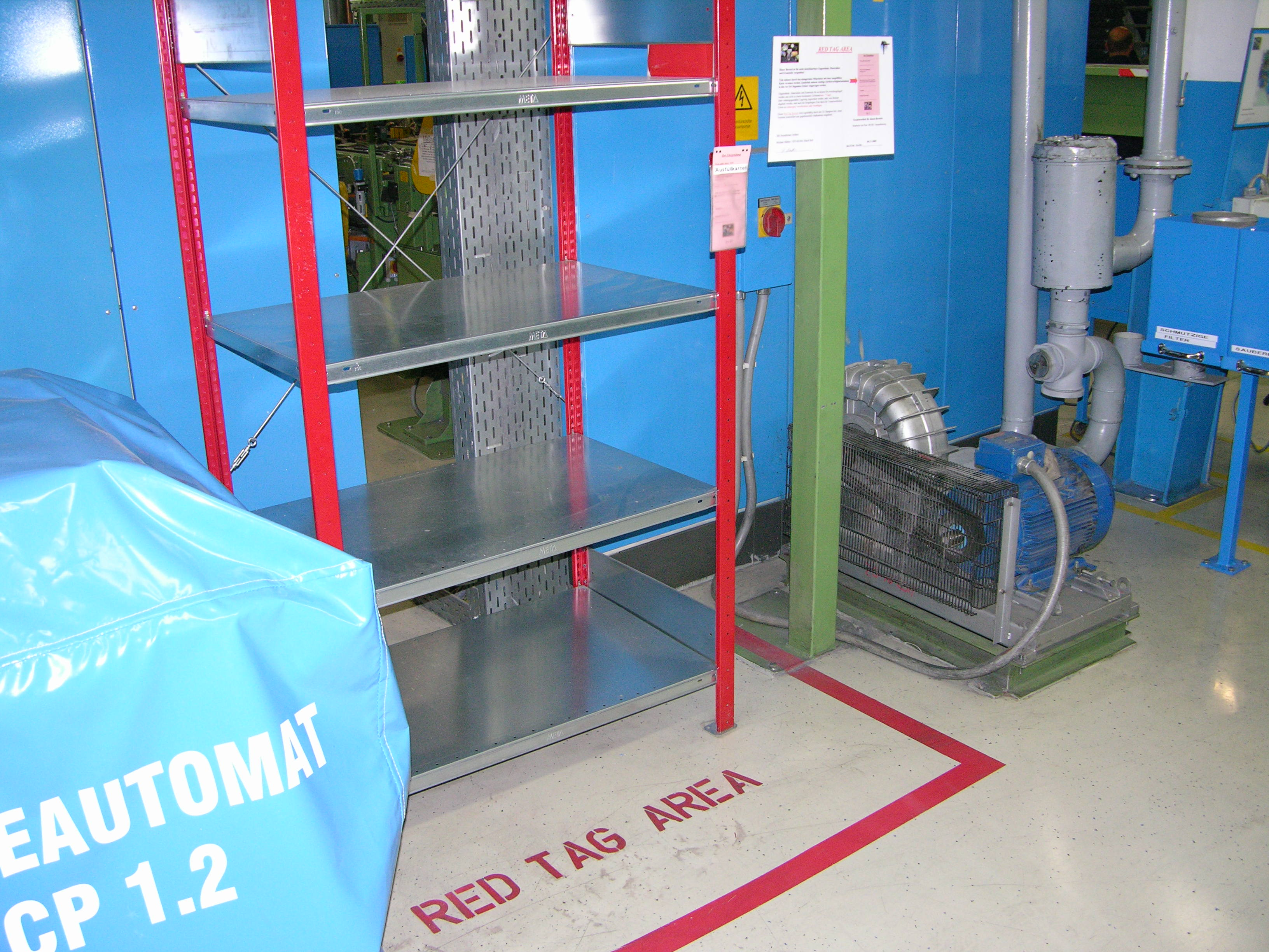 Red Tag Area